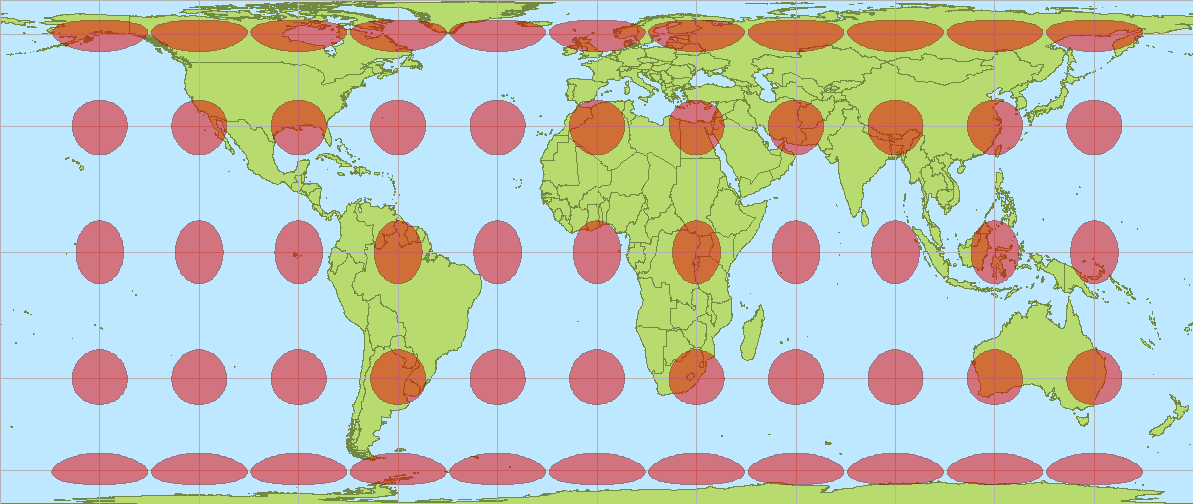 Tissot´s Indicatrix by Behrmanns mapprojection